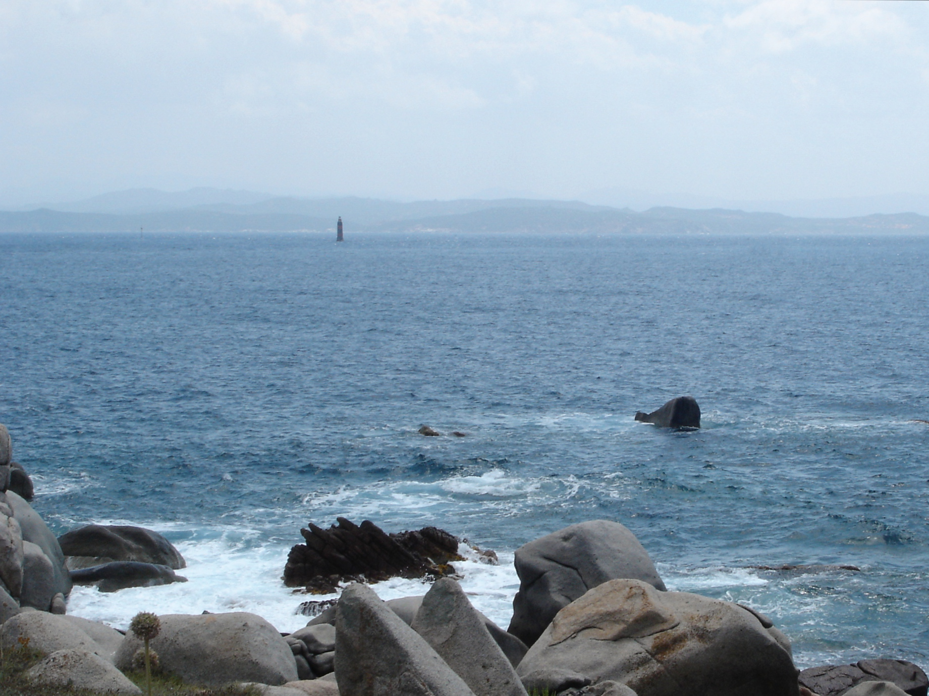 Reef of Lavezzi (the red/black beacon), seen from the southern tip of the main island of the archipelago (Corse-du-Sud). This reef is the southernmost point of mainland France. Northern Sardinia is also visible, 9km away.